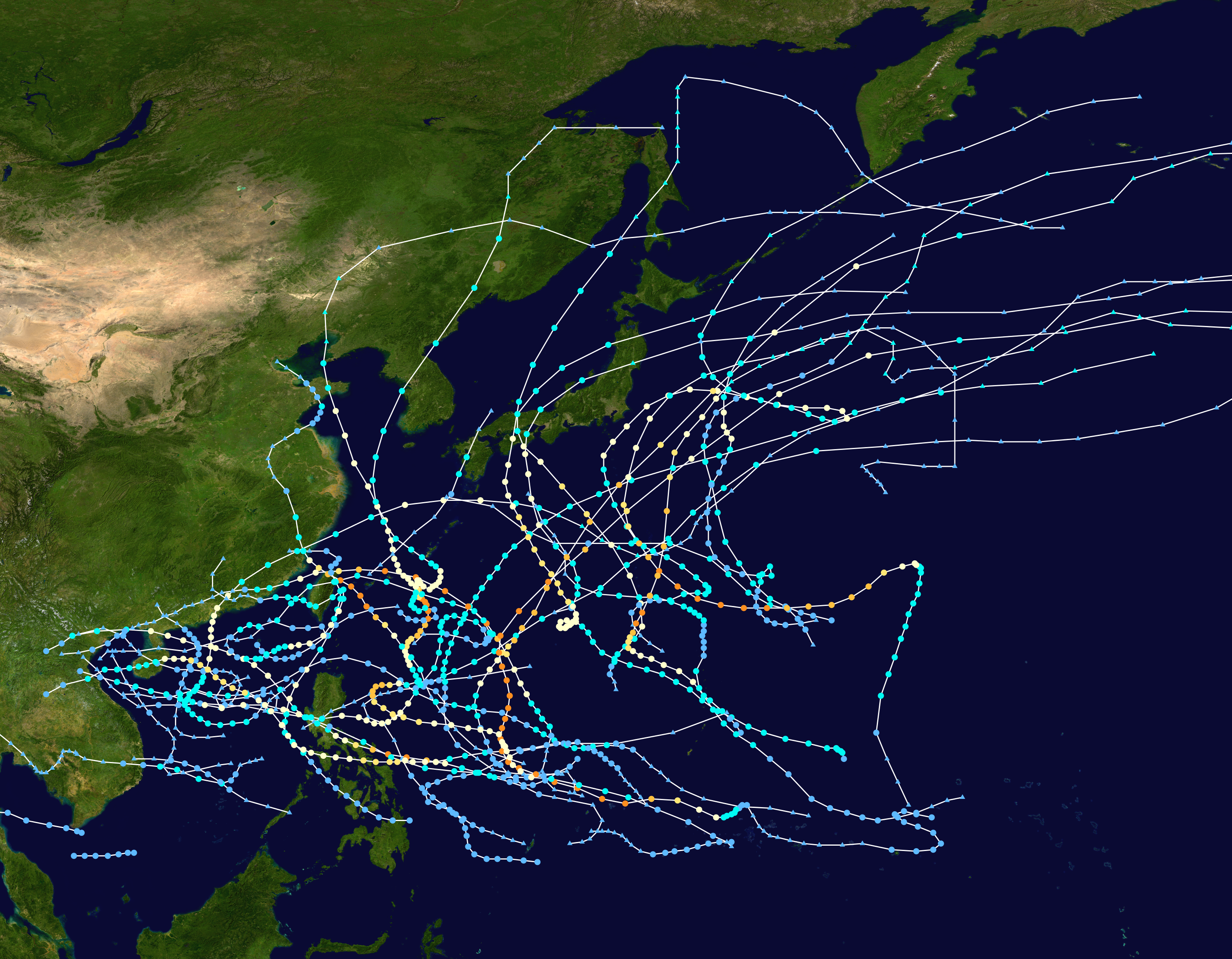 This map shows the tracks of all tropical cyclones in the 1960 Pacific typhoon season. The points show the location of each storm at 6-hour intervals. The colour represents the storm's maximum sustained wind speeds as classified in the Saffir-Simpson Hurricane Scale (see below), and the shape of the data points represent the type of the storm. Saffir–Simpson scale Tropical depression≤38 mph≤62 km/h Category 3111–129 mph178–208 km/h Tropical storm39–73 mph63–118 km/h Category 4130–156 mph209–251 km/h Category 174–95 mph119–153 km/h Category 5≥157 mph≥252 km/h Category 296–110 mph154–177 km/h Unknown Storm type Tropical cyclone Subtropical cyclone Extratropical cyclone / Remnant low / Tropical disturbance / Monsoon depression